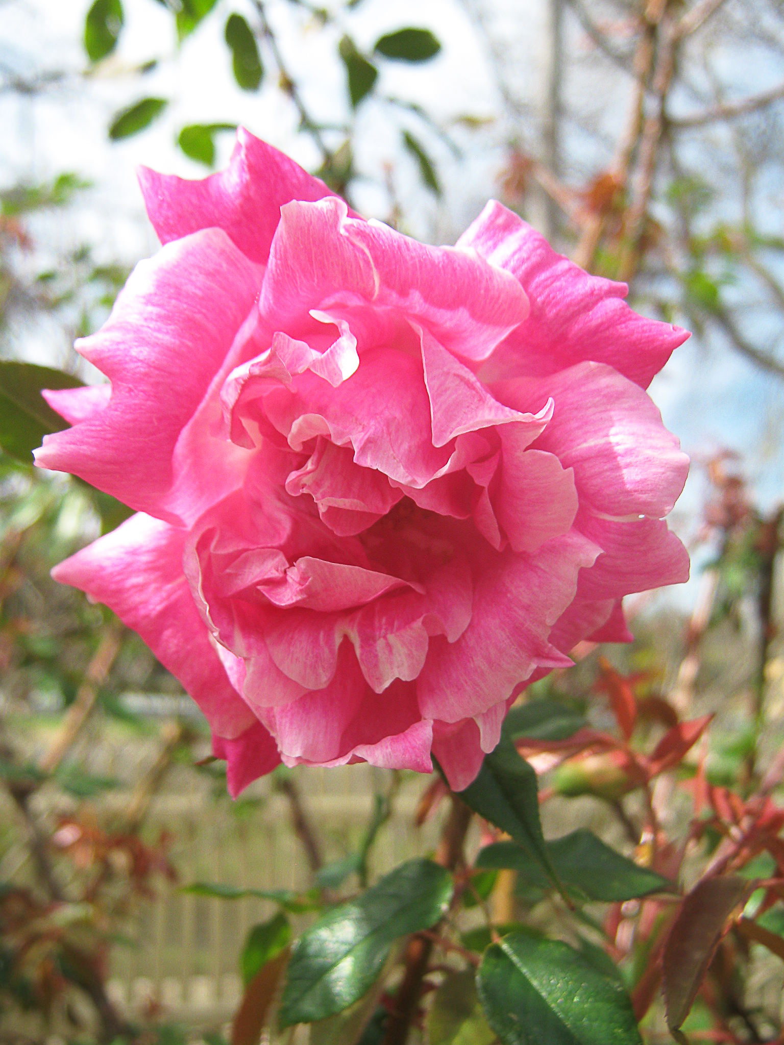 Rose 'Pennant', Hybrid Gigantea 1941 by Alister Clark; photographed in the Alister Clark Memorial Rose Garden, Bulla, Victoria